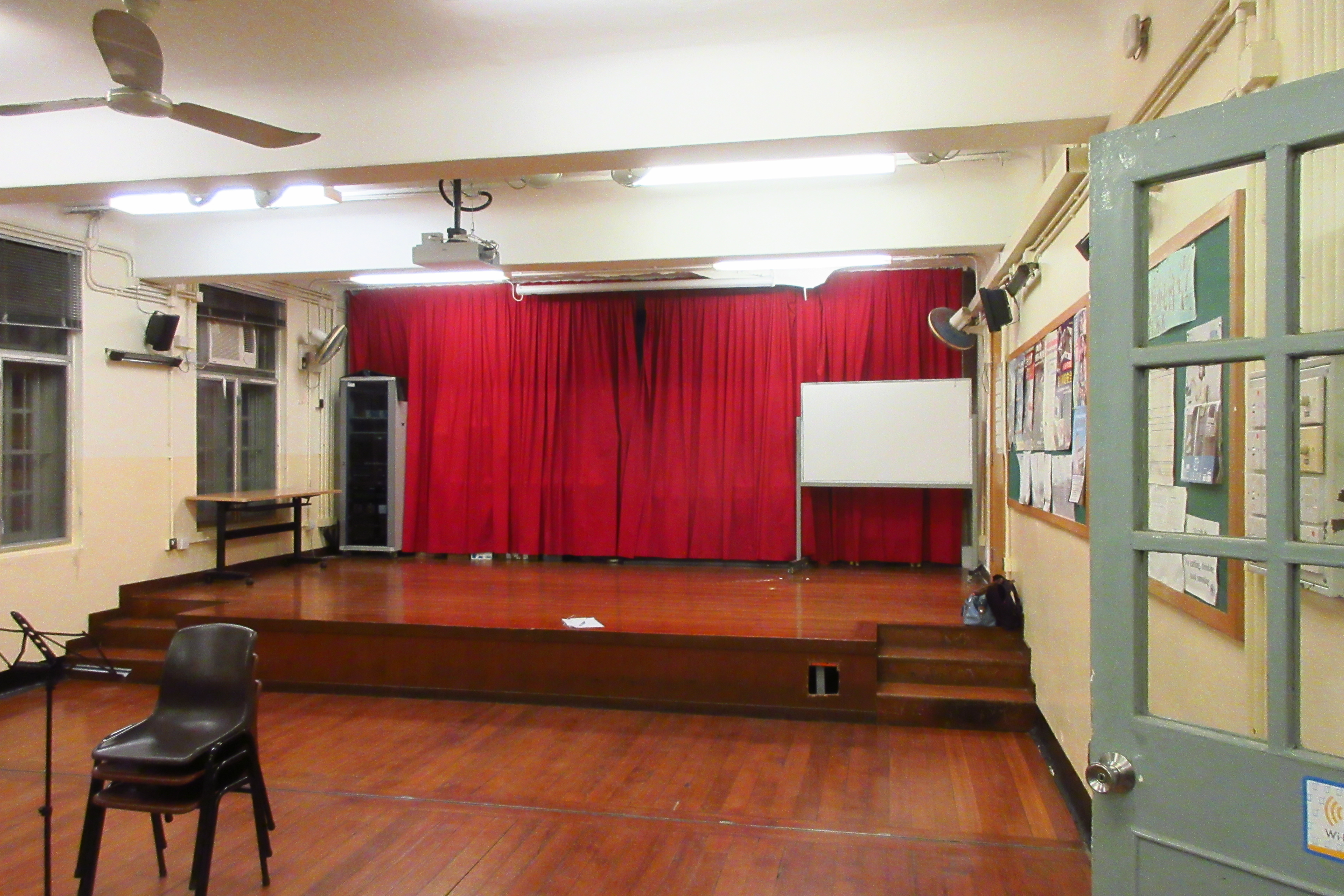 HK SYP 西營盤 WDCC 西區社區中心 Western District Community Centre in June 2018